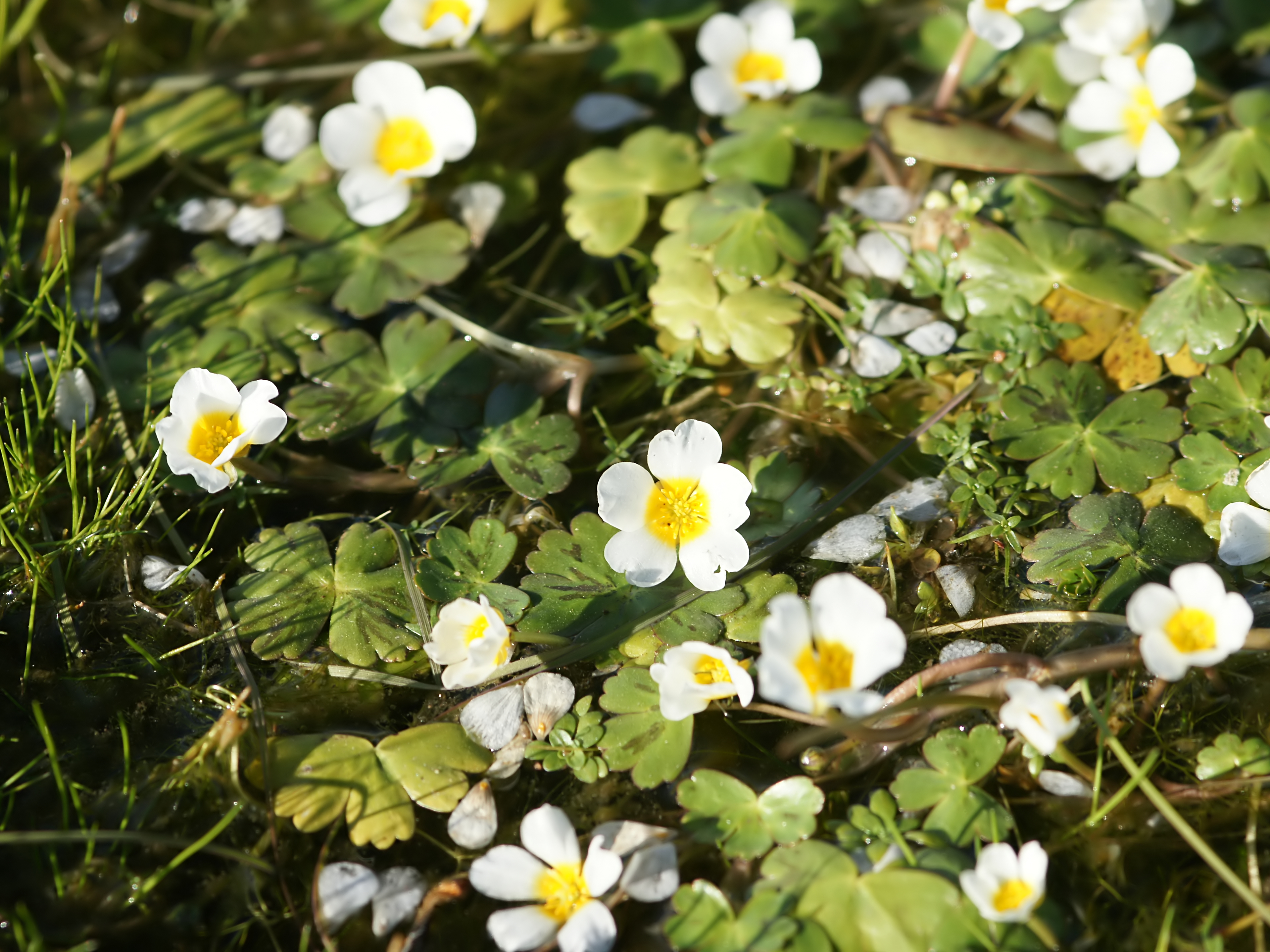 Common water-crowfoot close to Urzulei on the SS125 road, Sardinia, Italy